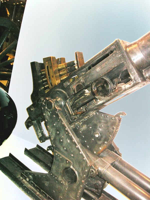 made during a summer day in Warsaw's Museum of the Polish Army; Lock of the Polish-made Bofors 40 mm gun, discovered after the war somewhere in Warsaw (hence the colour of oxidised steel)